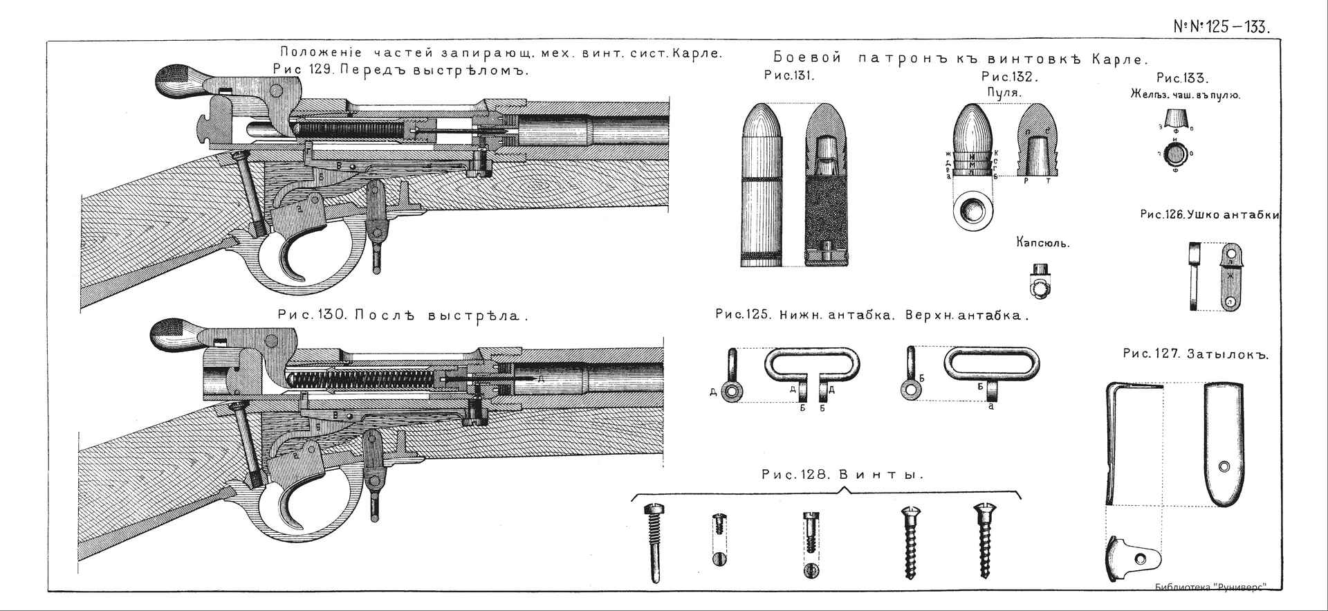 Russian Karle needle rifle (1867) parts and ammunition